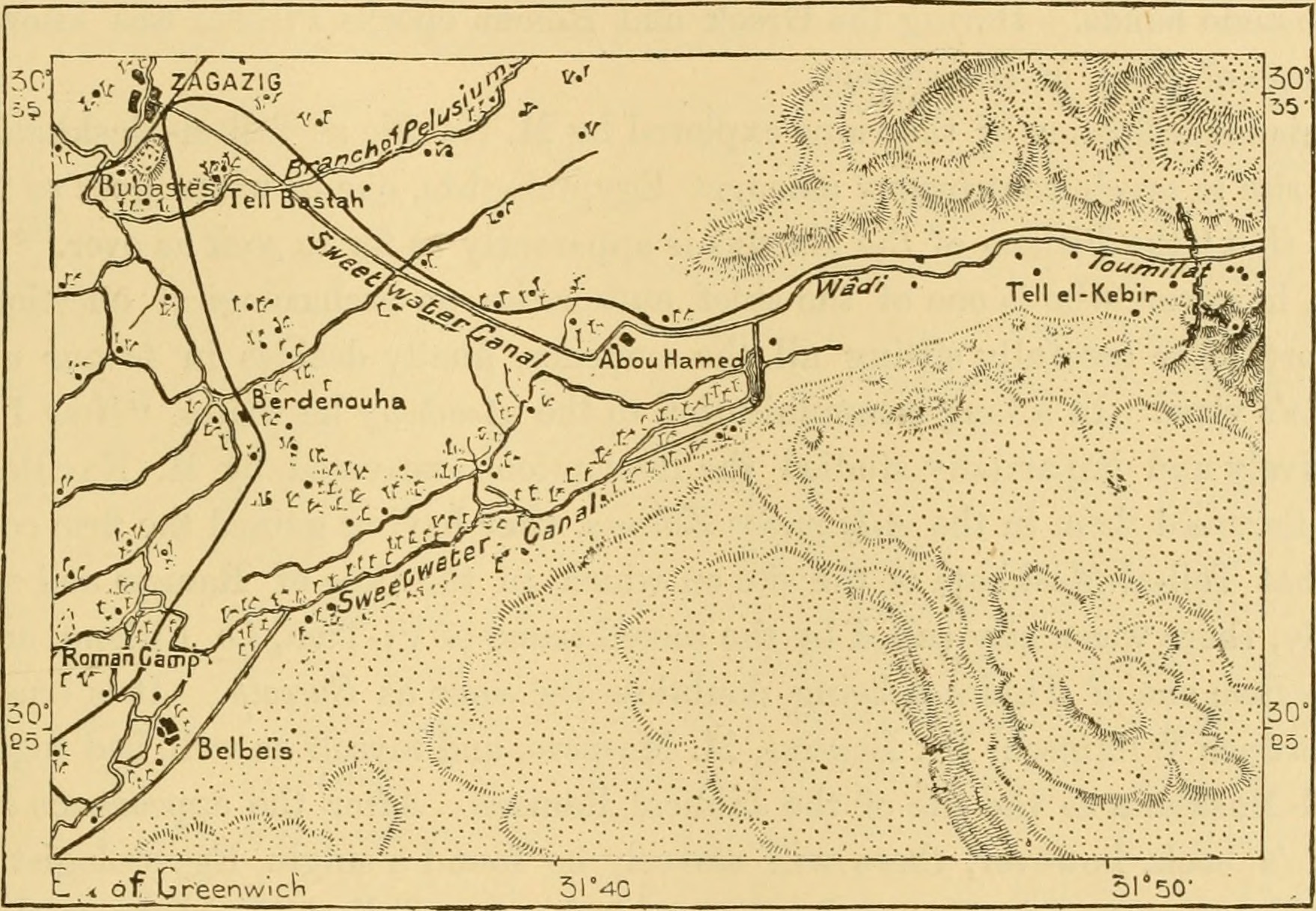 Title: The earth and its inhabitants .. Year: 1886 (1880s) Authors: Reclus, ElisÃ©e, 1830-1905; Ravenstein, Ernest George, 1834-1913; Keane, A. H. (Augustus Henry), 1833-1912 Subjects: Geography Publisher: New York, D. Appleton and company Text Appearing Before Image: TELL-EL-KEBIE âPITHOM. 417 But the great entrepÃ´t for the cotton and the cereals of this region of the delta is the populous city of Zagazig, which occupies a central position at the junction of several lines of railway, over against the western outlet of Wadj^-Tumilat. The population of this place has increased fivefold since the year 1860, thanks chiefly to the development of the cotton plantations. South of the Zagazig gardens a number of high mounds, collectively known by the name of Tell-el-Bast ah, still recall the ancient city of Pabast, the Buhastis of the Greeks, which was the capital of Egypt some twenty-seven or twenty-eight cen- turies ago ; that is to saj^, during the twenty-second dynasty, when the frequent Fig. 129.âEntrance of the Wady-Tumilat, Tell-el-Kebie,. Scale 1: 340,000. Text Appearing After Image: 6 Miles. wars with Assyria reqidred the centre of gravity of the kingdom to be shifted more towards the east. Broken shafts and sculptured blocks still scattered about attest the former splendour enjoyed by this now mined city. North-east of it, on the very verge of the wilderness and on the last irrigating canals derived from the Nile, lies the village of Karaim, surrounded by palm-groves which have the reputation of jÃ elding the finest dates in Egypt. TeLL-EL-KeBIK PiTHOM. The entrance of the "Wady-Tumilat is guarded on the west by the station of Tell-el-Kebir, that is, the " Great Mound," where in the year 1882 the Egyptian forces under Arabi vainly attempted to make a stand against the British expedition advancing from Ismailia, its base on the Suez Canal. The fortifications erected by 27âAF.